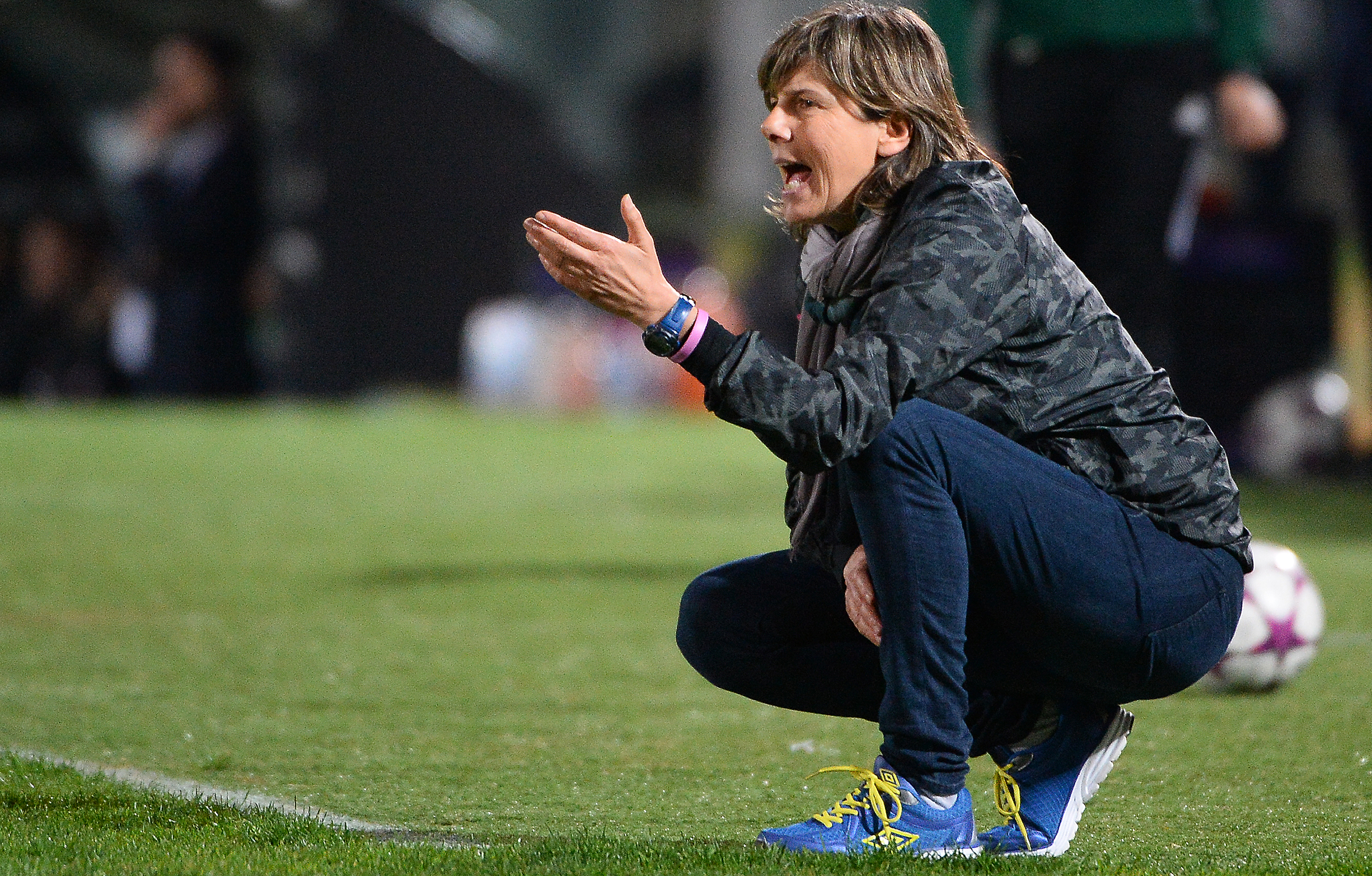 SPORT CALCIO BRESCIA WOMEN'S CHAMPIONS LEAGUE BRESCIA WOLFSBURG NELLA FOTO MISTER BERTOLINI 30-03-2016 AGENZIA REPORTER ZANARDELLI